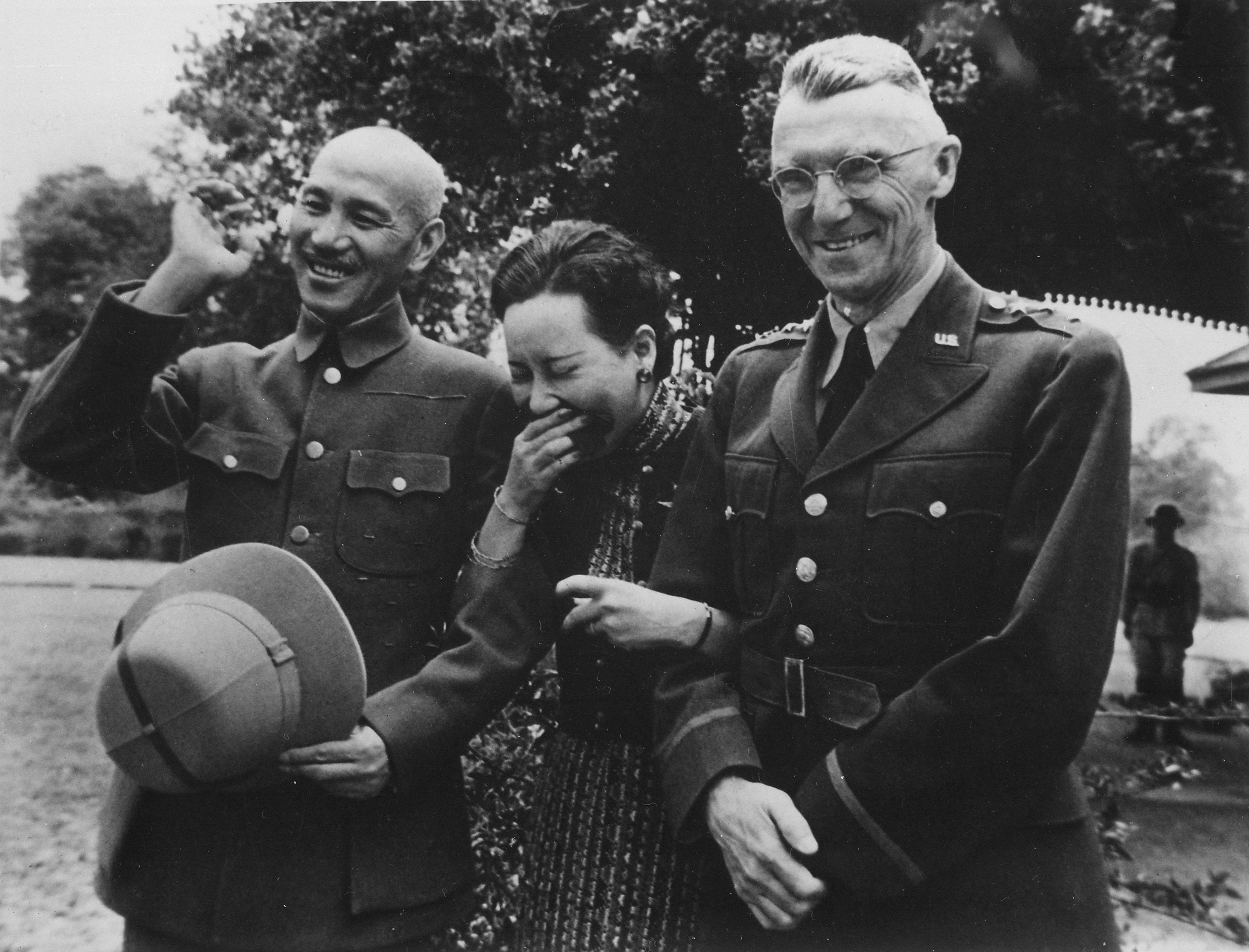 Generalissimo and Madame Chiang Kai Shek and Lieutenant General Joseph W. Stilwell ("Vinegar Joe"), Commanding General, China Expeditionary Forces, on the day following Japanese bombing attack (Doolittle Raid). Maymyo, Burma., 04/19/1942